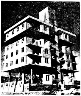 9 հարկանի շենքի կառուցումը հարկերի բարձրացման մեթոդով